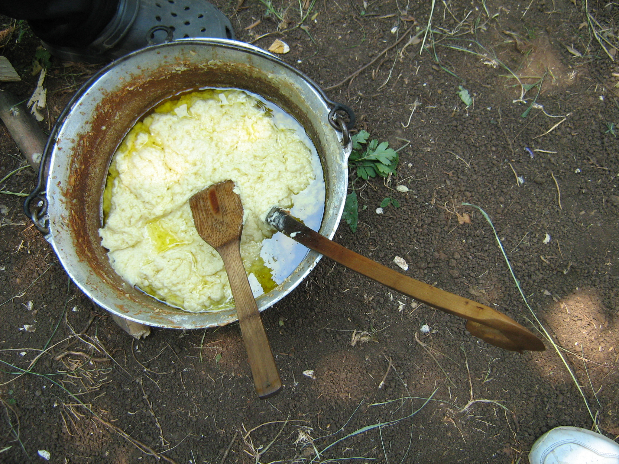 Preparing of Belmuž in the traditional way, in the cauldron